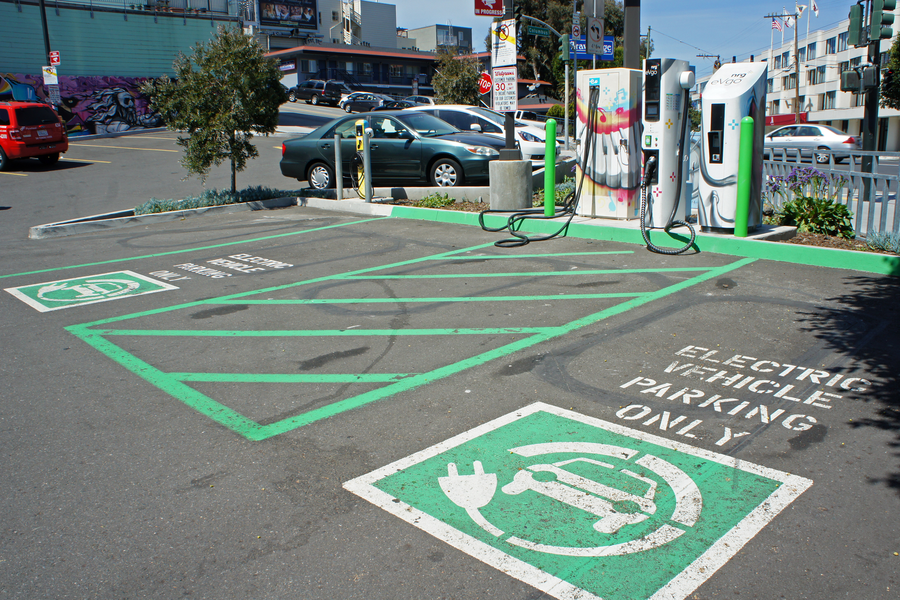 Public charging station for plug-in cars near Fisherman's Wharf, San Francisco